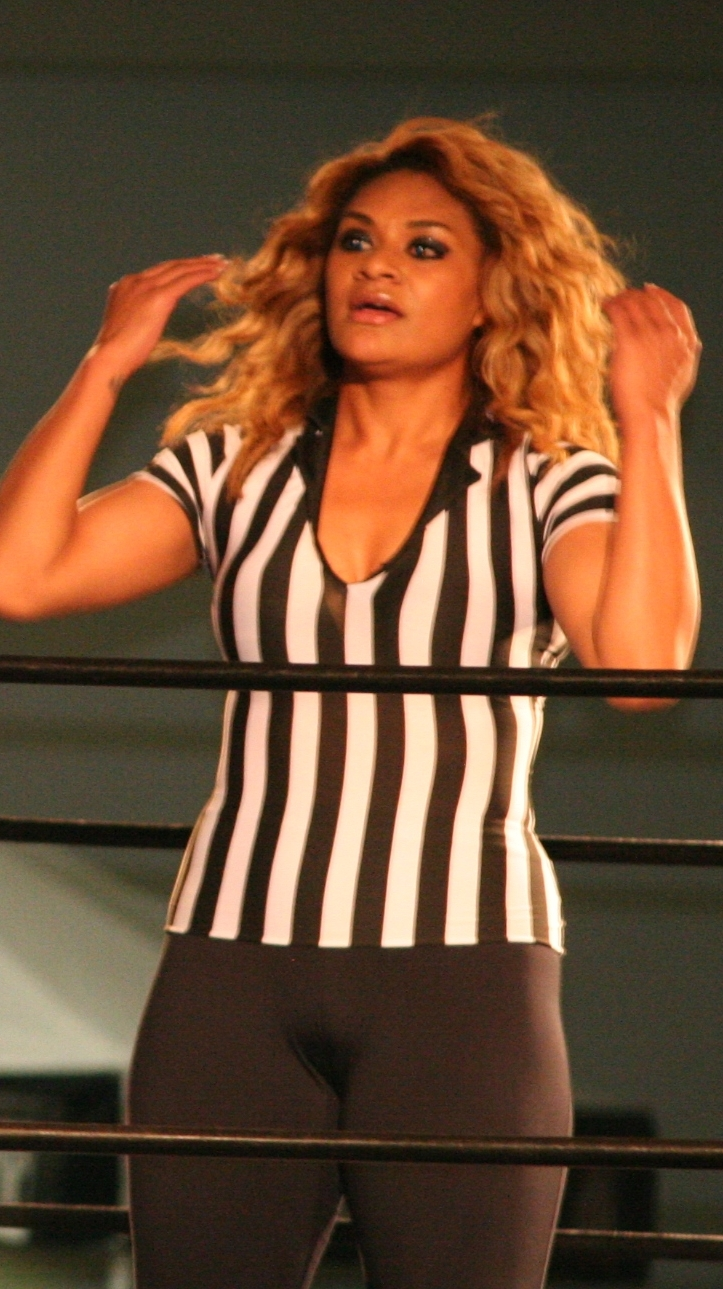 Lei'D Tapa in the ring at a Wrestlecade show in Winston Salem, North Carolina on November 25, 2012. Cropped from original.